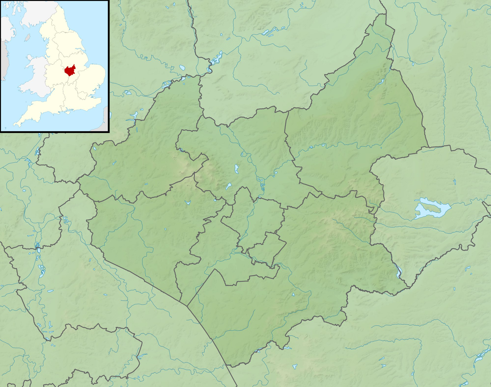 Relief map of Leicestershire, UK. Equirectangular map projection on WGS 84 datum, with N/S stretched 160% Geographic limits: West: 1.80W East: 0.50W North: 53.00N South: 52.36N